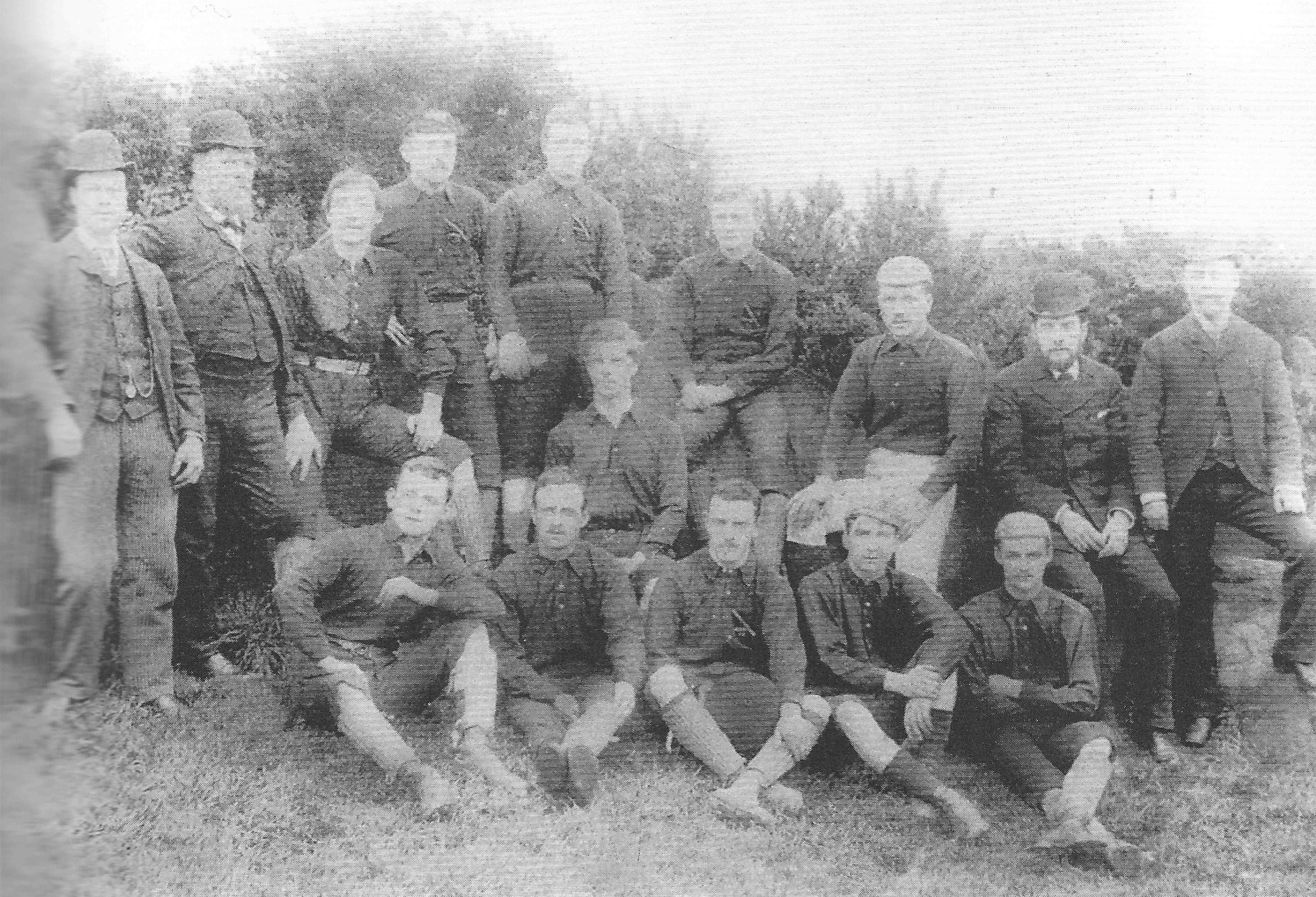 Tranmere Rovers F.C. squad in 1889/90. L-R, back: Myers (Secretary), J.H. McGaul (President), Munro, Morgan (Captain), H. Sheridan, Shepherd, F. Rogers, Jackson, Wild. Middle: Wallace. Front (seated): Roberts, G. Sheridan, Littler, E. Rogers, McAfee.